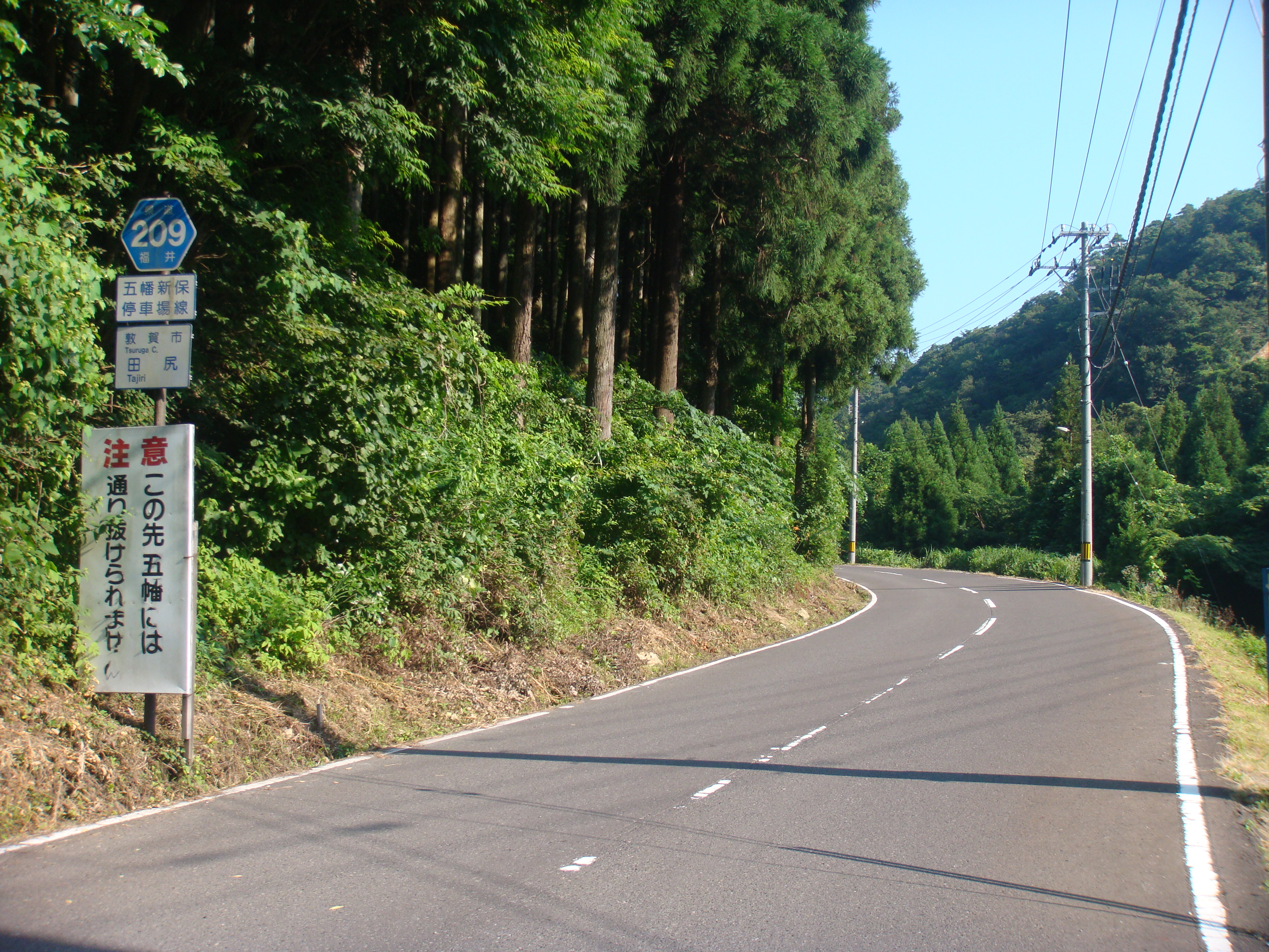 Fukui Prefectural Road Route 209（Itsuhata-Shinboteishajo Line） （“teishajo” means railroad station） The meaning of the left signboard:WARNING You cannot go through it after this towards Itsuhata. Place - Tajiri,Tsuruga City,Fukui Prefecture,Japan Date - July 16, 2011 Format - JPEG, 3648x2736pixel, 24bit colors Photographer - NALA Wiki (talk)